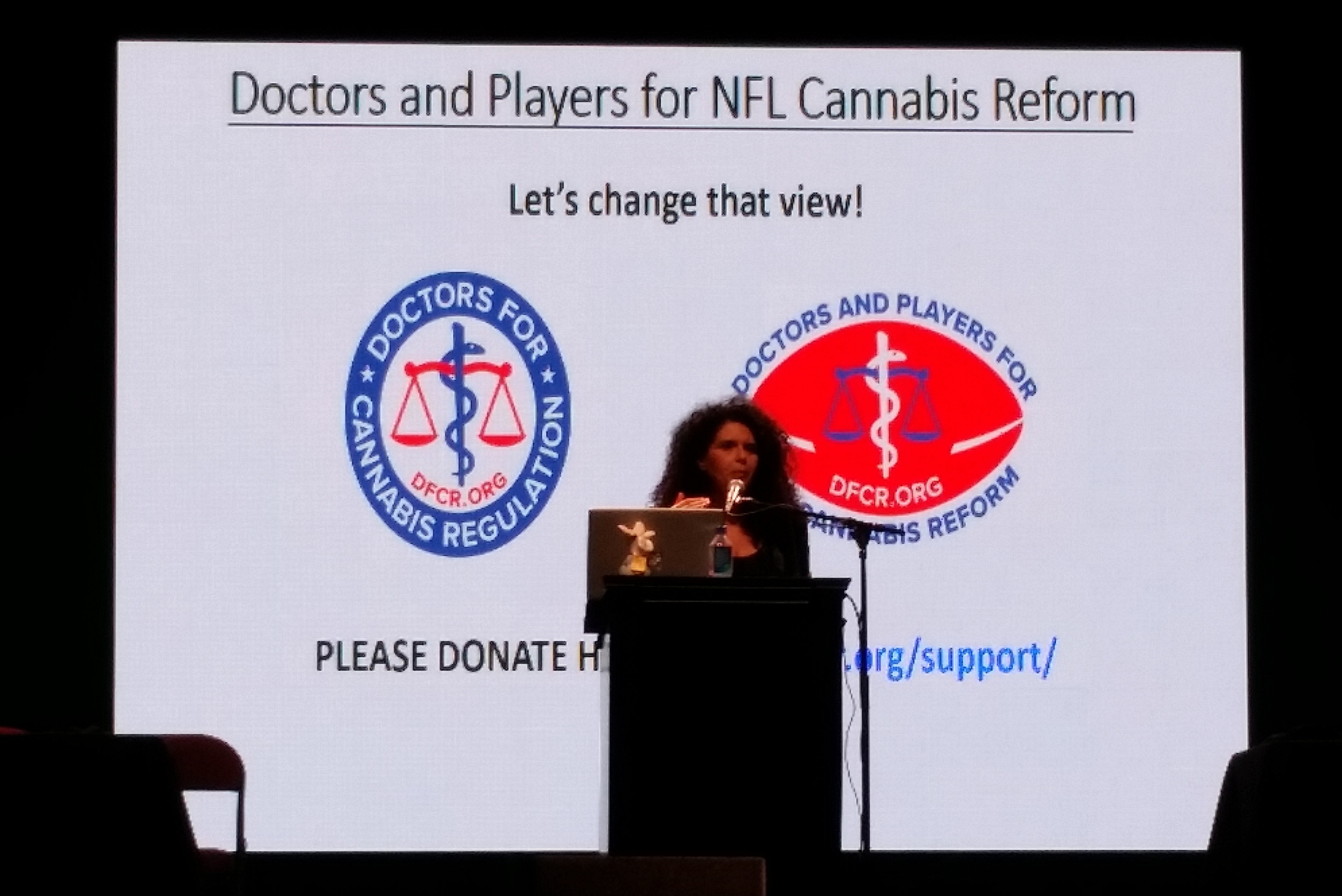 The 2017 Houston, Texas Cannabidiol Superbowl Conference. A panel of scientists, along with 7 ex-NFL players presented both strong science and personal stories providing a convincing case for using CBD products.